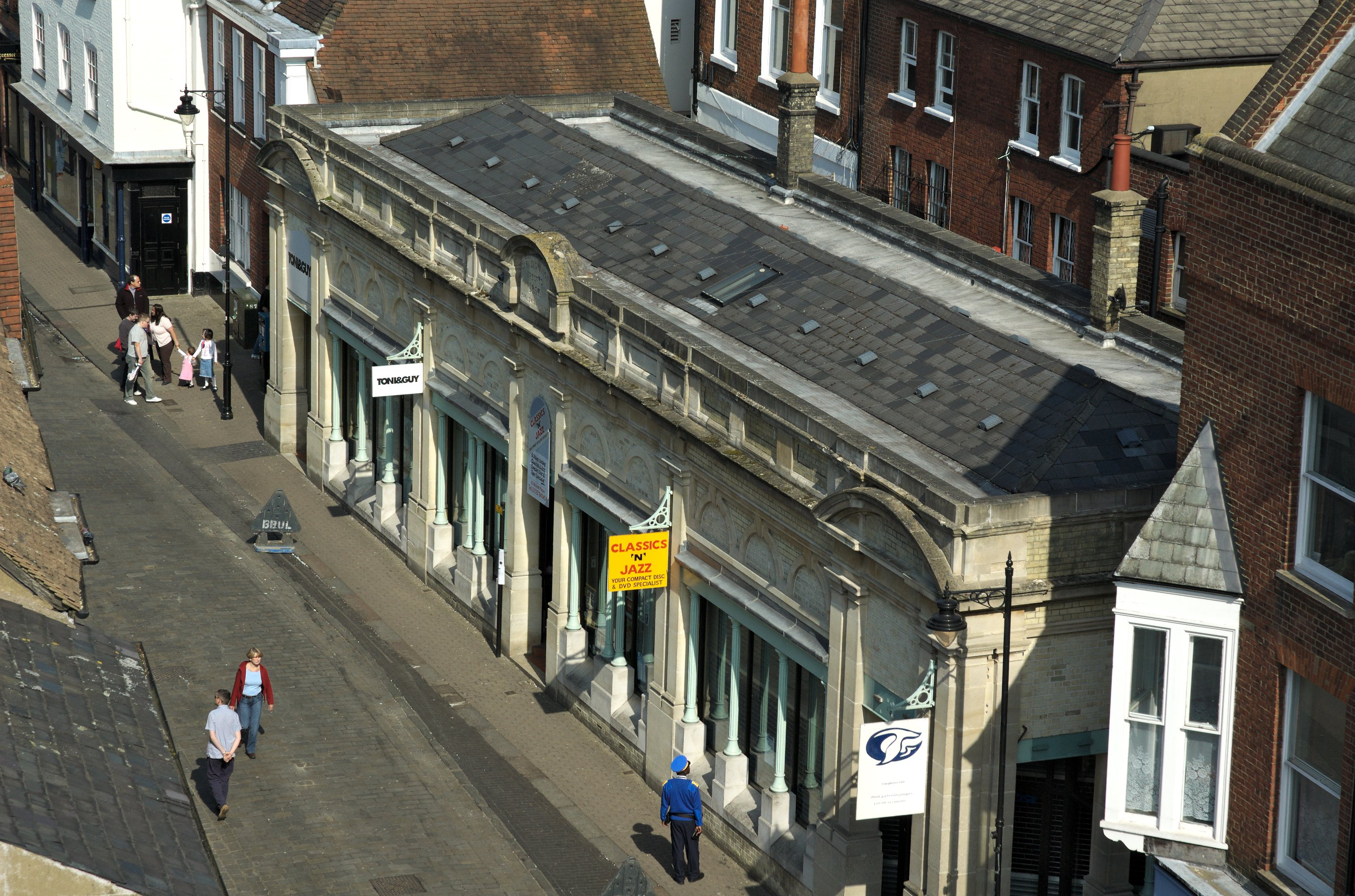 Former Corn Exchange in St Albans.